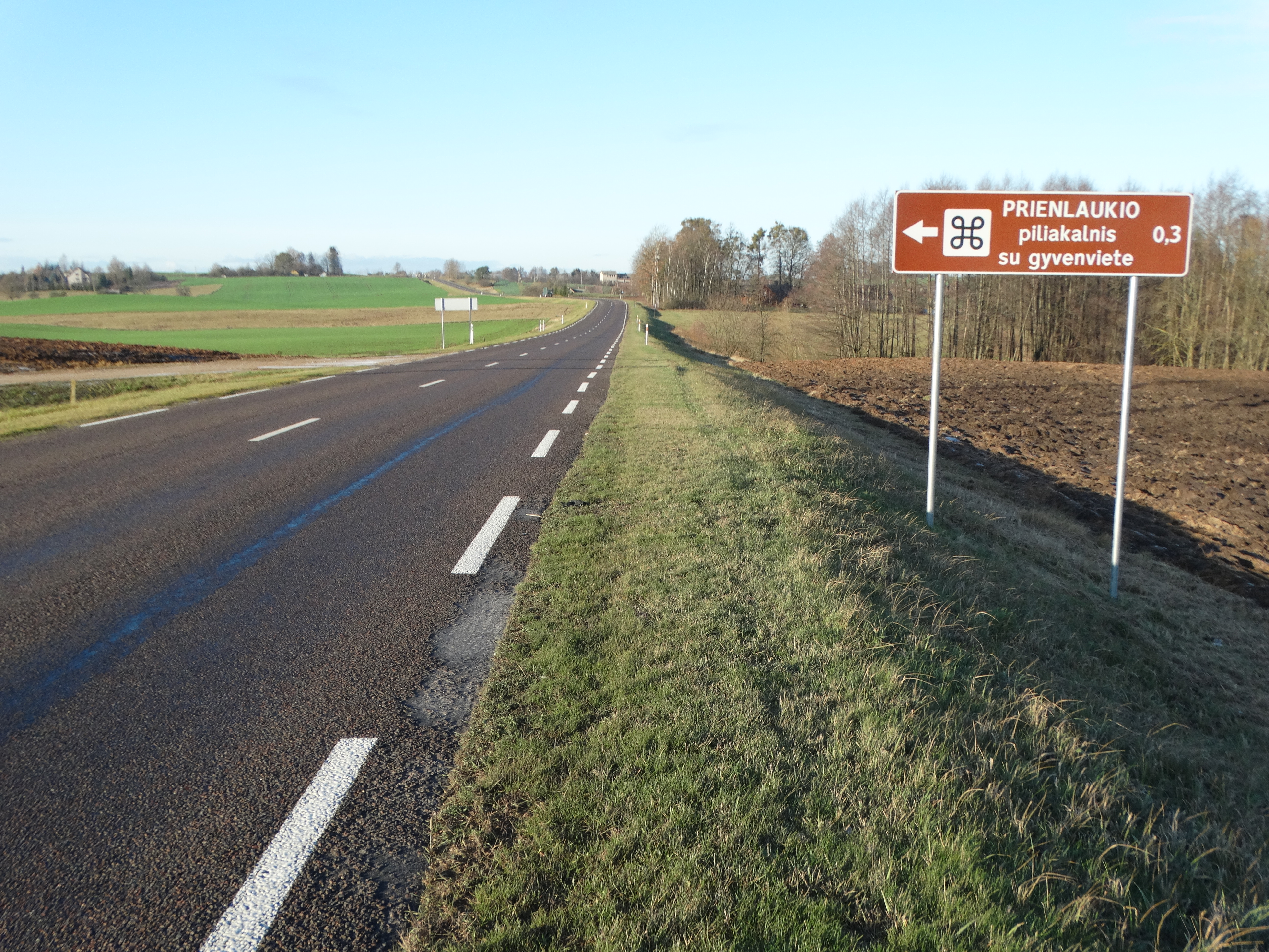 Road 189 in Prienlaukys, Prienai district, Lithuania